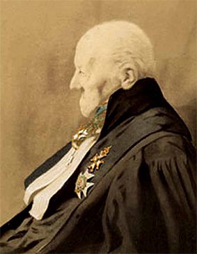 Mr. M. C. van Hall